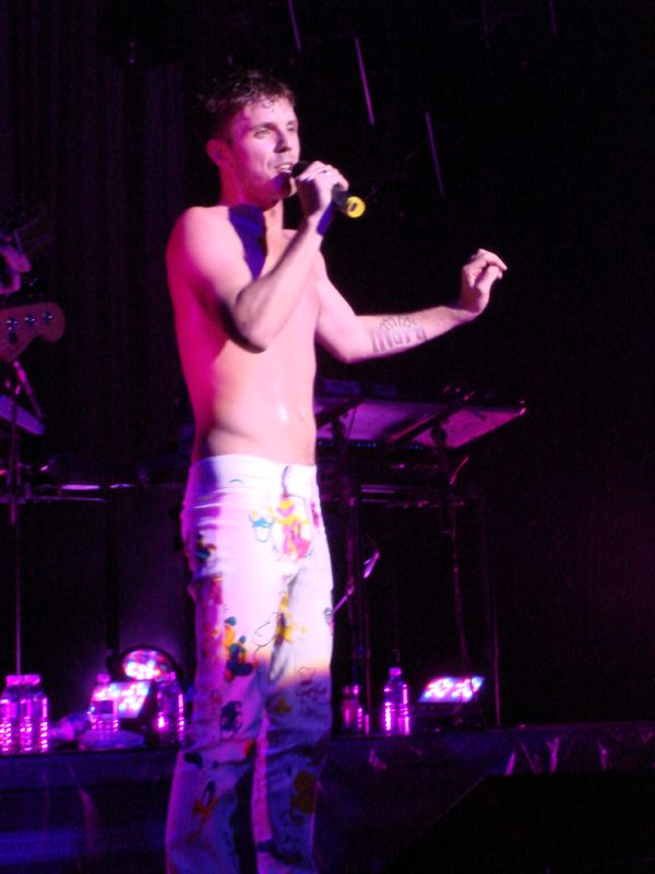 Jake Shears bares his heart and wears Mary on his 'sleeve' at the Theater at Madison Square Garden, New York, 3/1/07.